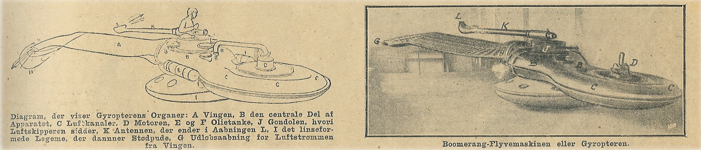 Plan of Gyropter invented by Papin and Rouilly from France, from Danish magazine "Illustreret Familiejournal" (Illustrated Familyjournal) 1914 no. 44, p. 29. The caption reads:"Diagram showing the parts of the gyropter: A. The wing. B. The central part of the machine. C. Airchannels. D. The motor. E & F. The oiltank. J. The gondola, wherein the aircaptain sits. K. The antenna that ends in the opening L, I. the lenseshaped body that creates a cushion. G.Emitteropening for the airstream from the wing. The caption on the second picture reads: "The boomerang flying machine or the gyropter."